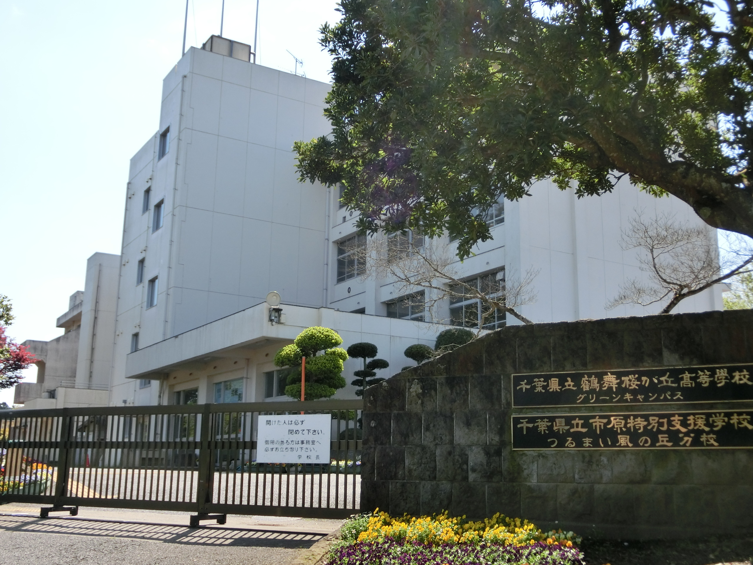 Tsurumai Sakuragaoka High School Green Campus